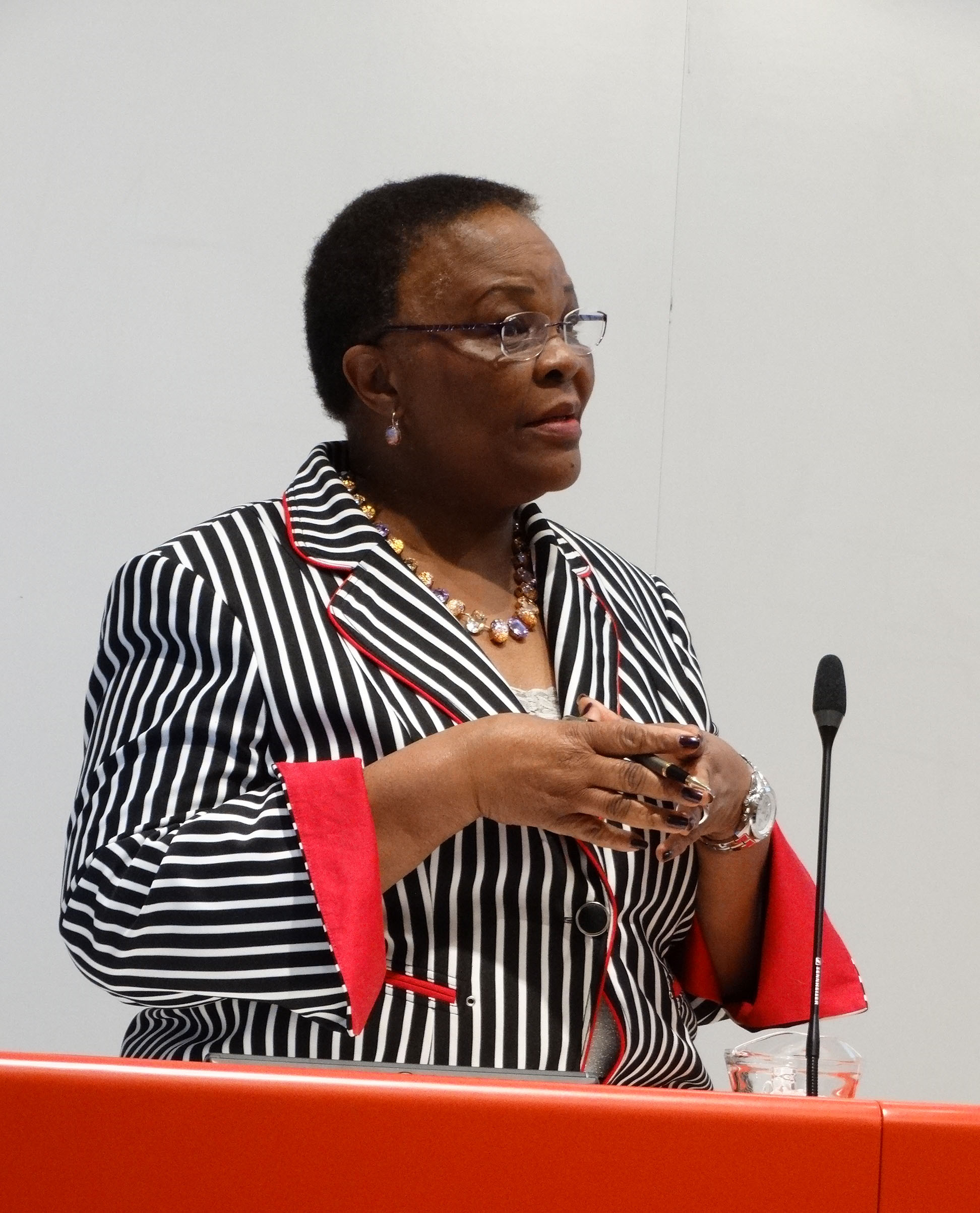 Sanji Mmasenono Monageng, judge and vice-president of the International Criminal Court (ICC), during a lecture about international criminal justice at the Institute of Political Sciences at Leiden University (the Netherlands), 12 Febr. 2015